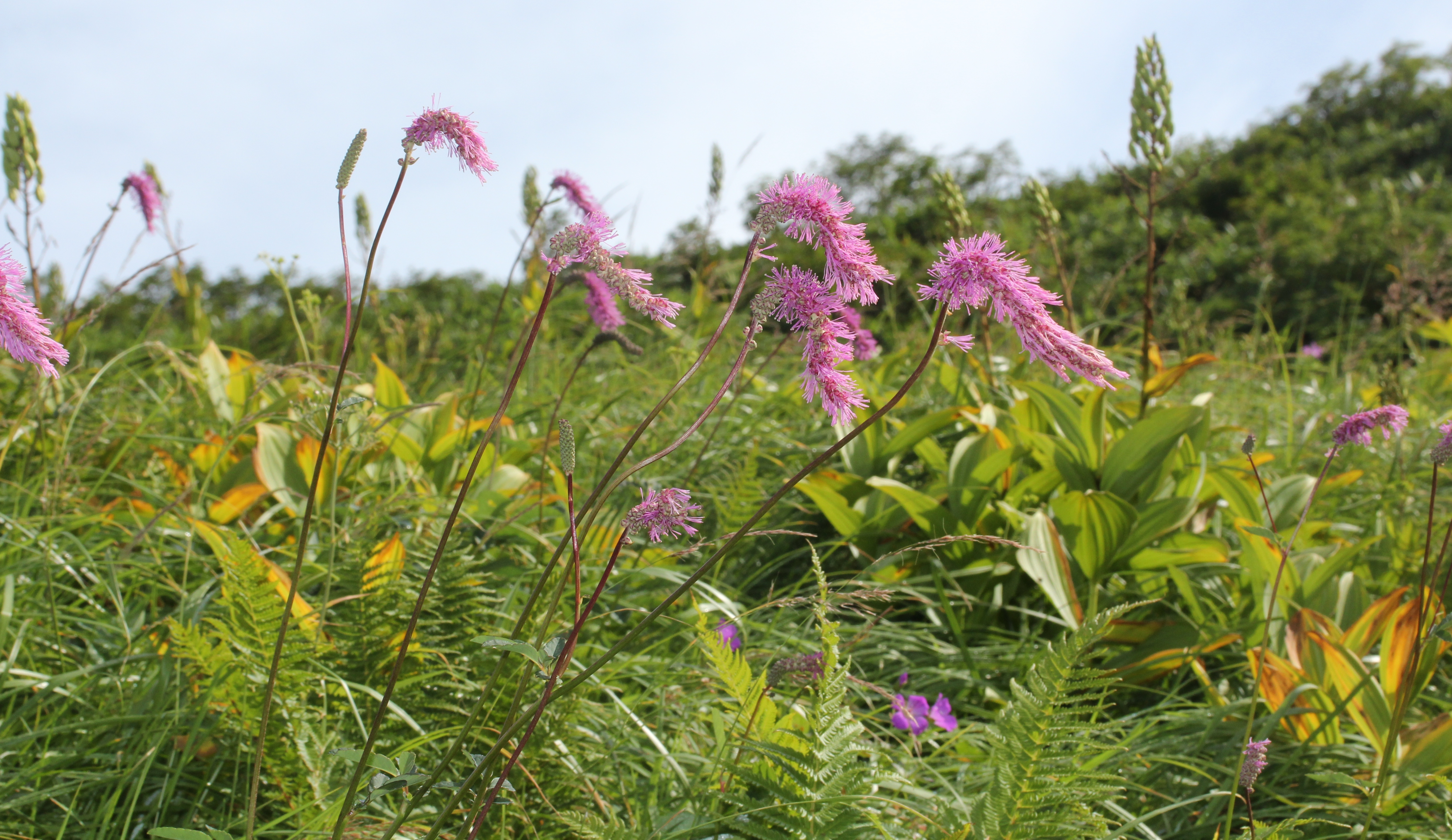 Sanguisorba hakusanensis in Mount Haku, Hakusan, Ishikawa prefecture, Japan.